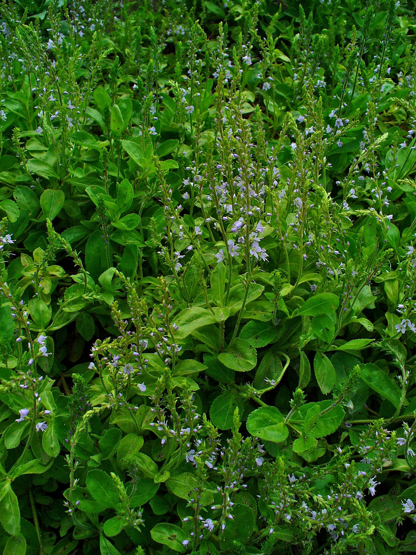 Veronica officinalis, Plantaginaceae, Heath Speedwell, Common Speedwell, Common Gypsyweed, Paul's Betony, habitus.